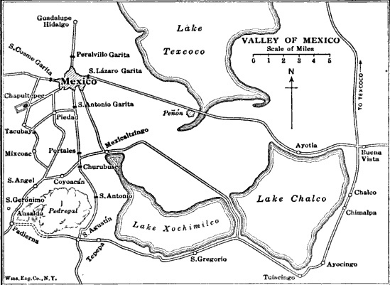 SouthofMexicoCity